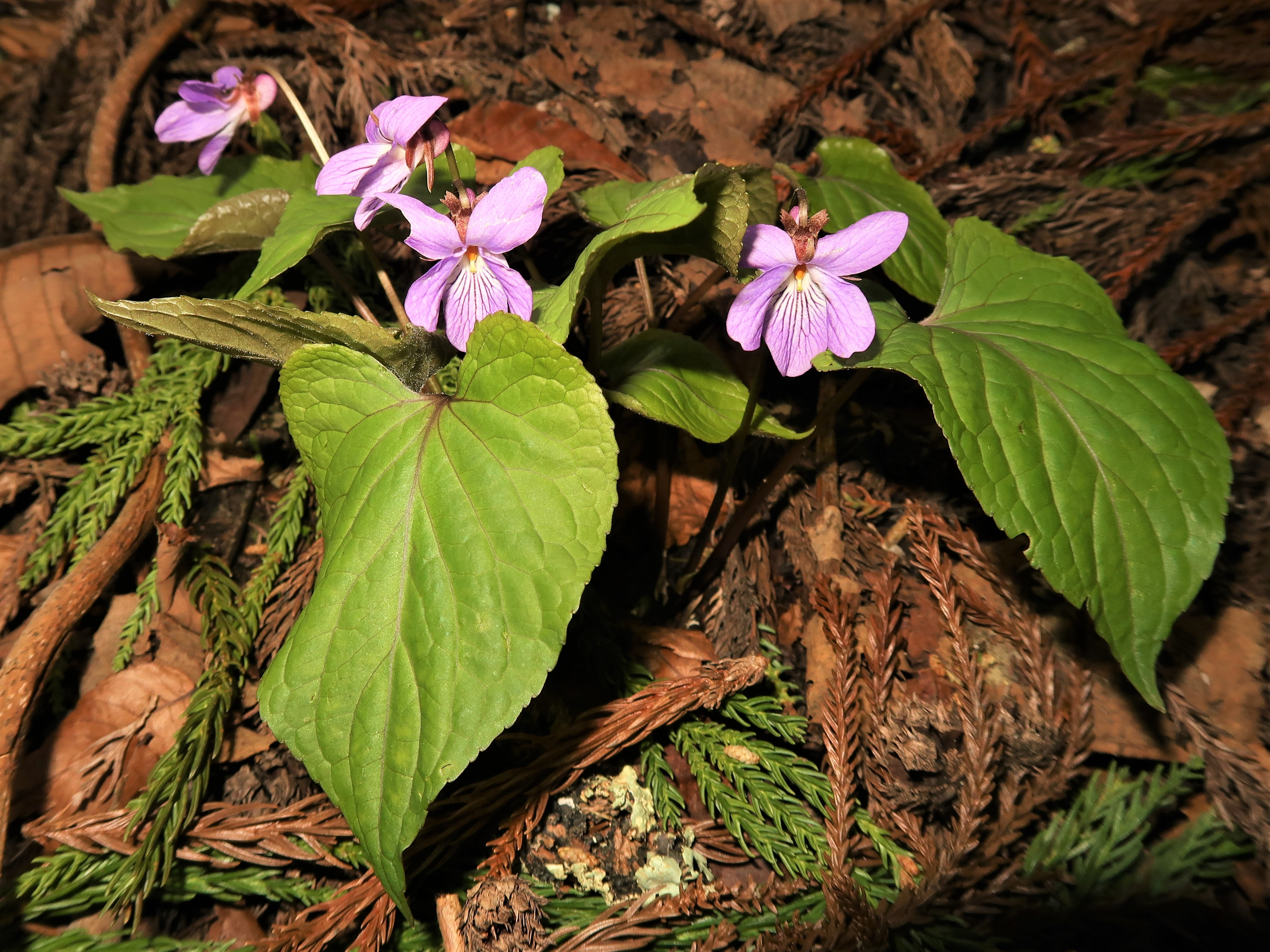 Viola vaginata, Aizu area, Fukushima pref., Japan